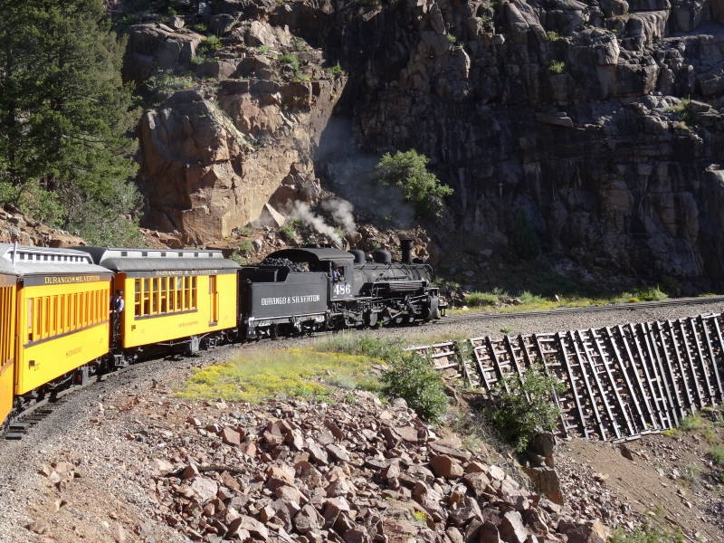 Durango and Silverton Narrow Gauge Railroad